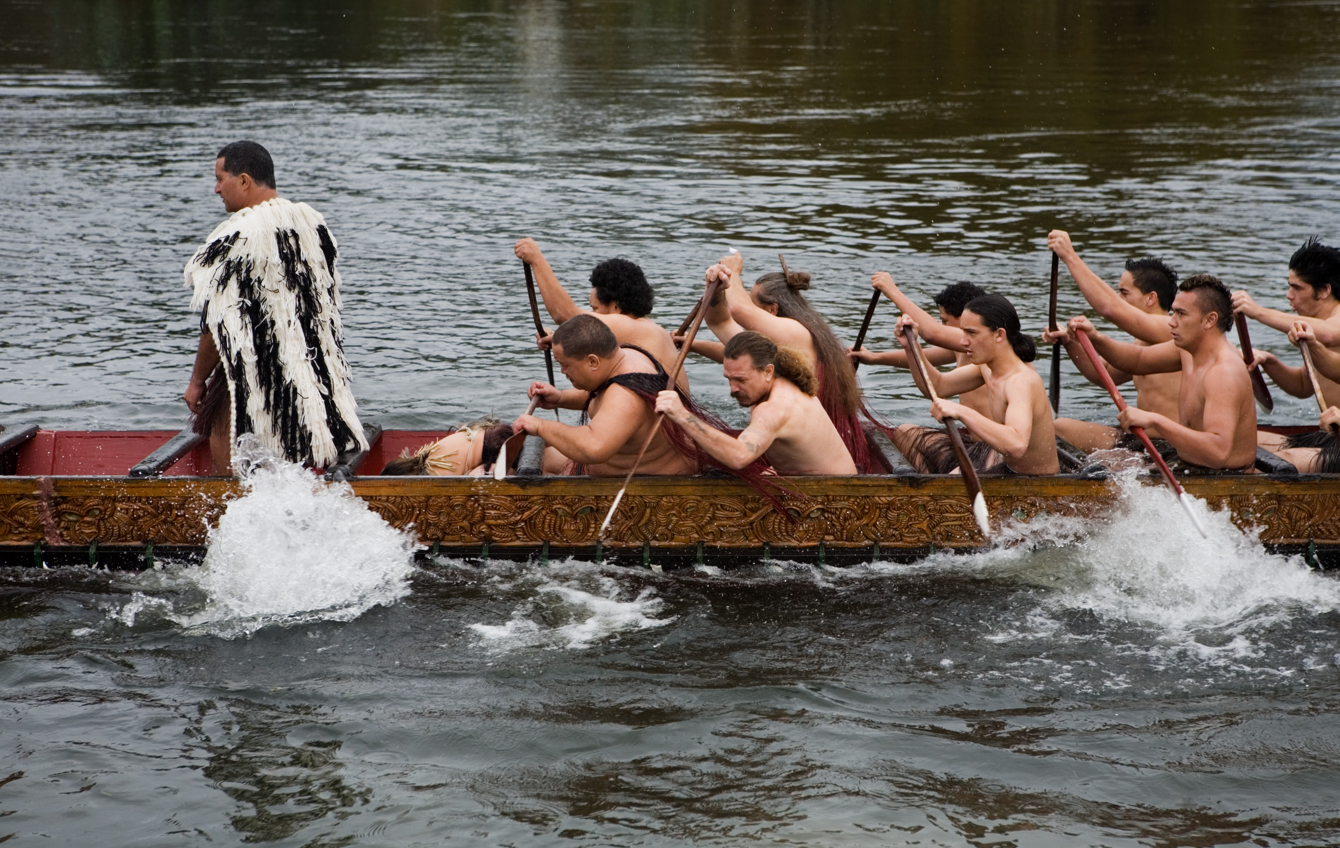 New Zealand Maori rowing ceremonial coreography